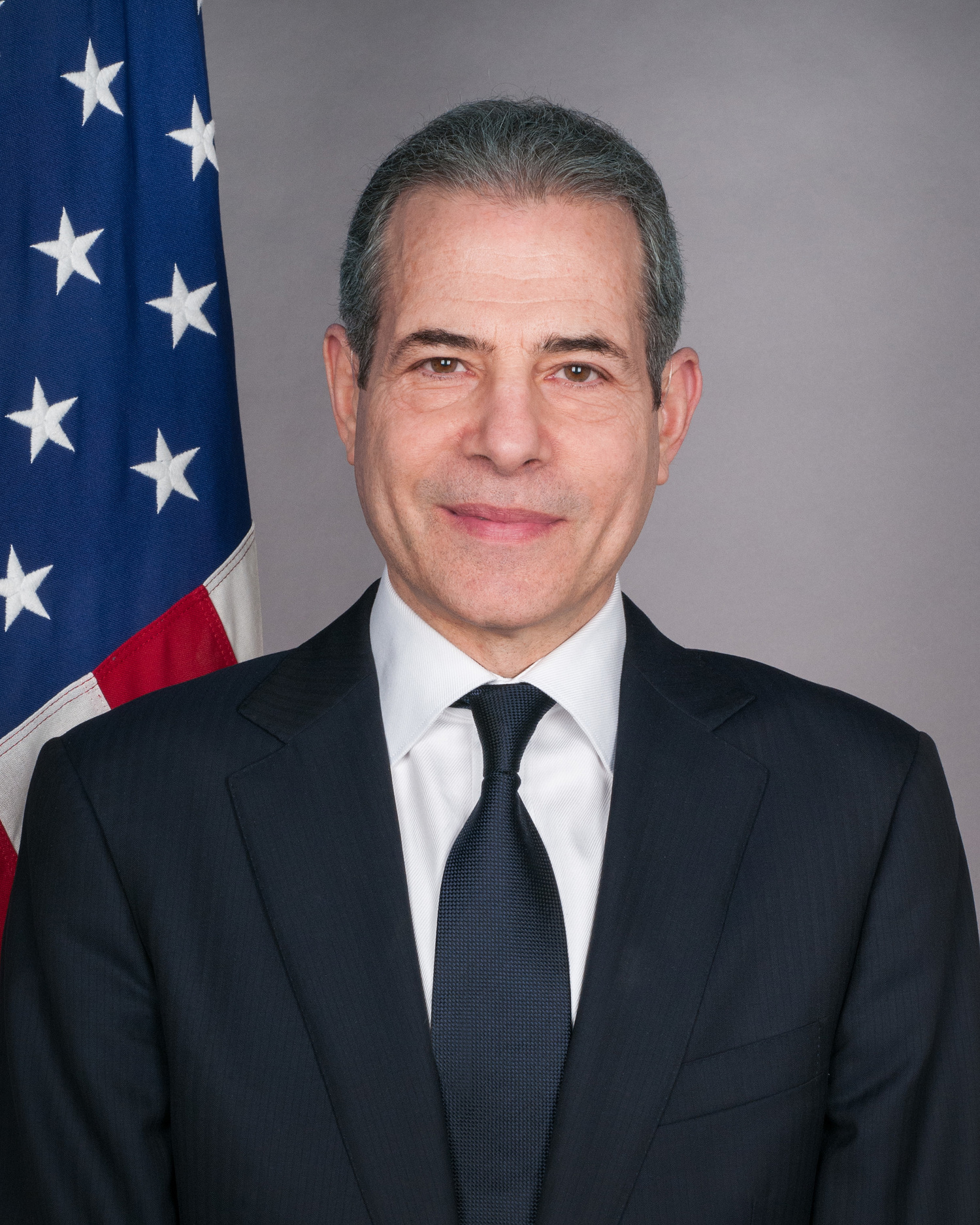 Richard Stengel, Under Secretary of State for Public Diplomacy and Public Affairs as of 2015